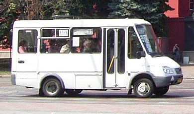 Taras Shevchenko University in Kiev, Ukraine. BAZ 2215 Delfin bus.